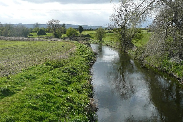 From Ballinacarrig Bridge Looking west from the bridge which carries the N80 over the Burren River. The river joins the River Barrow in the centre of Carlow, three kilometres away.